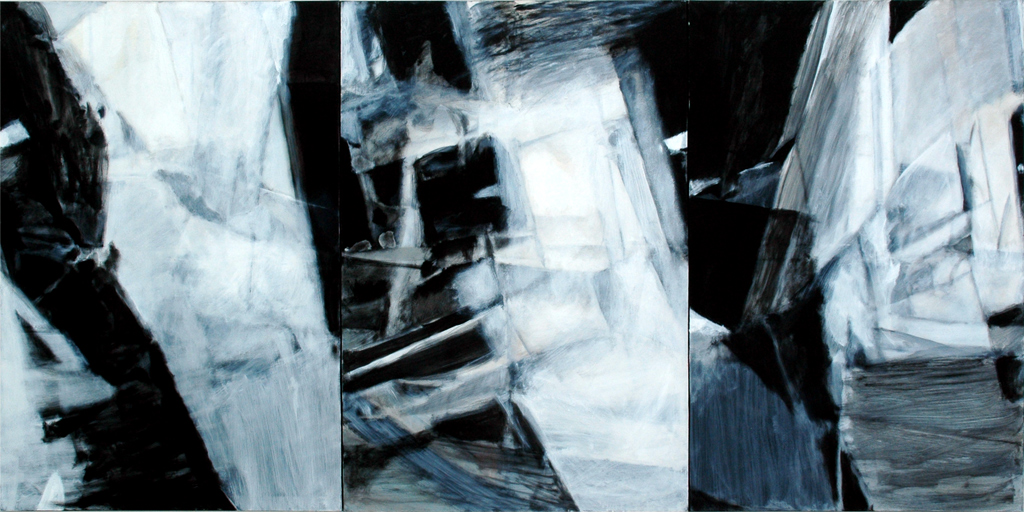 Miroslav Štolfa, White triptych, 2013, acryl, canvas, 150x300 cm